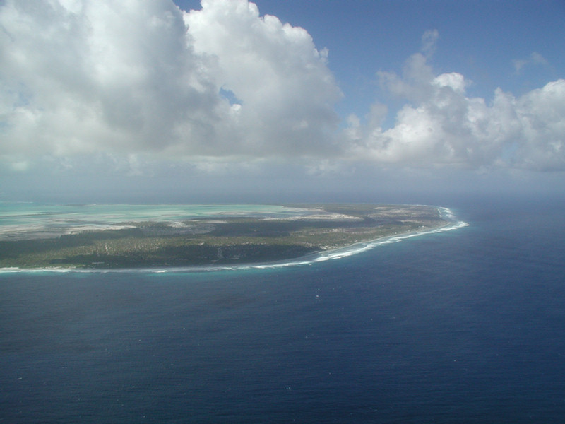 Aerial approach to Radionuclide Station RN39 Kiritimati, Kiribati